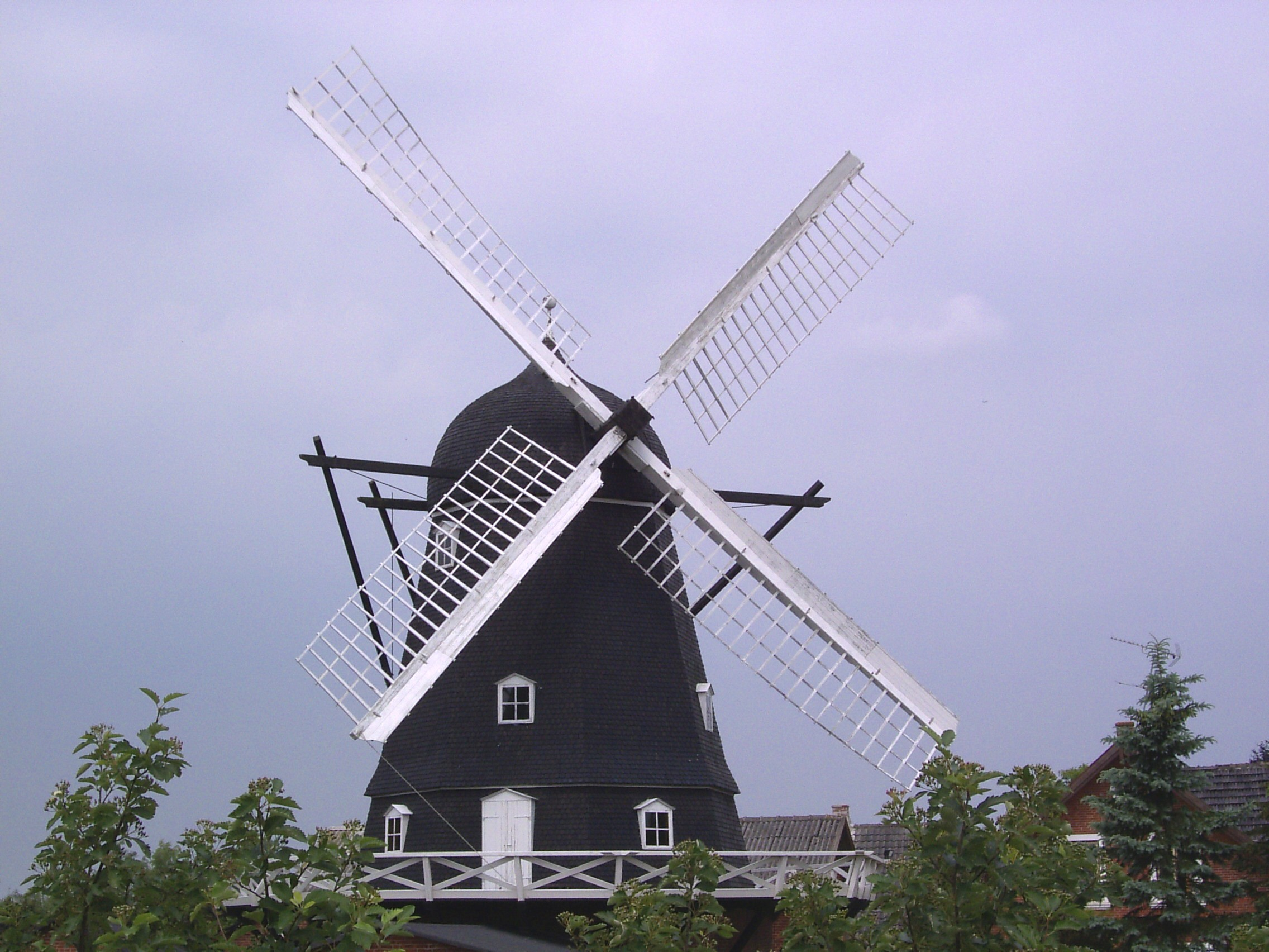 Mill of Majbølle, Majbølle, Lolland, Denmark. Built 1896. Restored 1988 and reopen by Prince Henrik of Denmark. Date: 2006.07.12 Author: Sir48